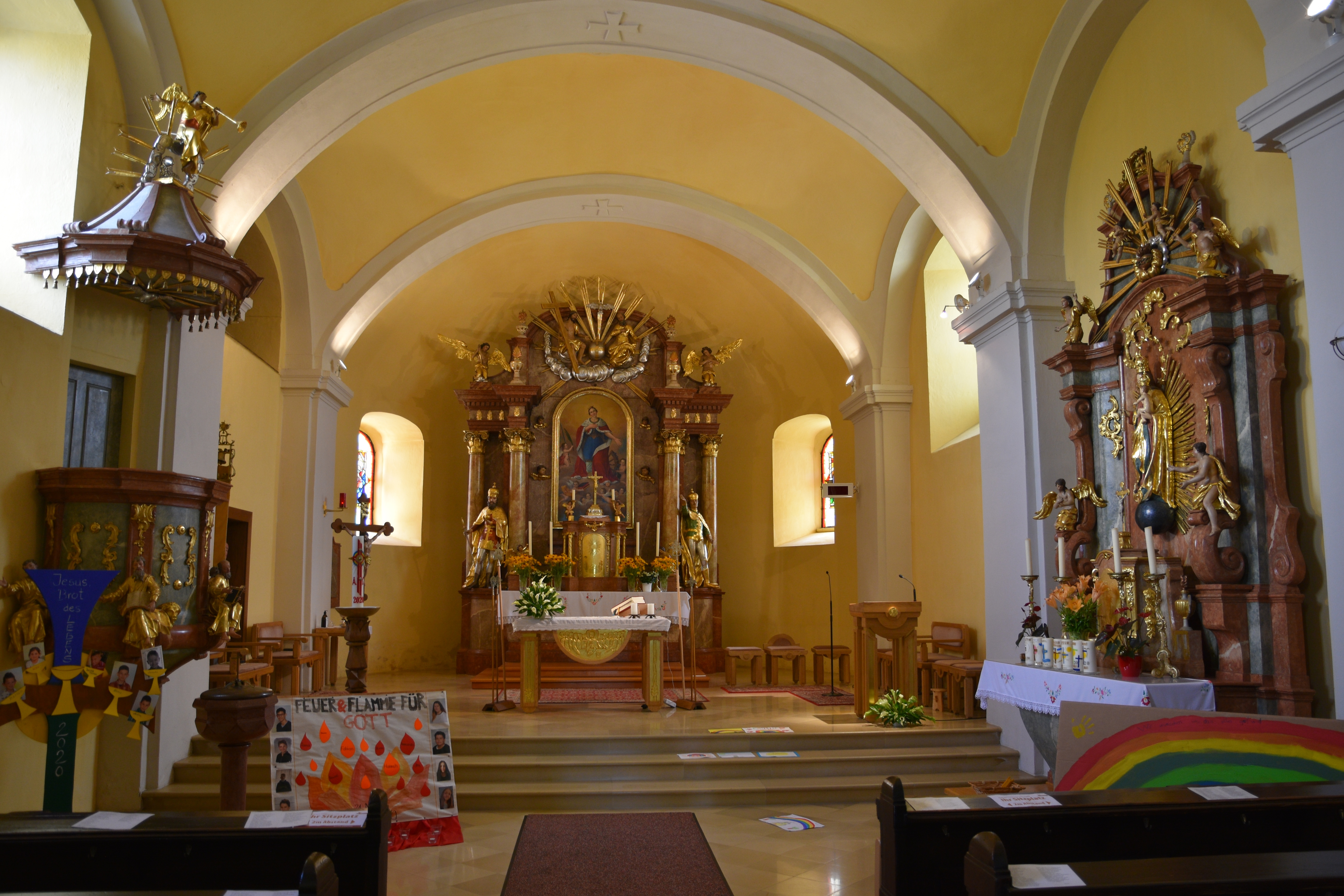 Unterwart Parish Church Interior